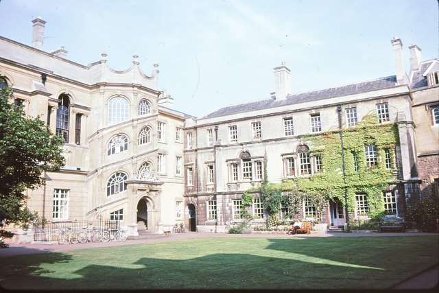 Hertford College Oxford - Old Quadrangle 1981 Viewed from outside the college chapel, the 19th century buildings of Hertford College's original quadrangle are seen. Earlier in 1981, Granada TV had used this location extensively in filming Brideshead Revisited. The ground floor windows 2nd and 3rd to the right of the doorway slightly left of centre mark the room used for external and interior views of Charles Ryder's Oxford room.